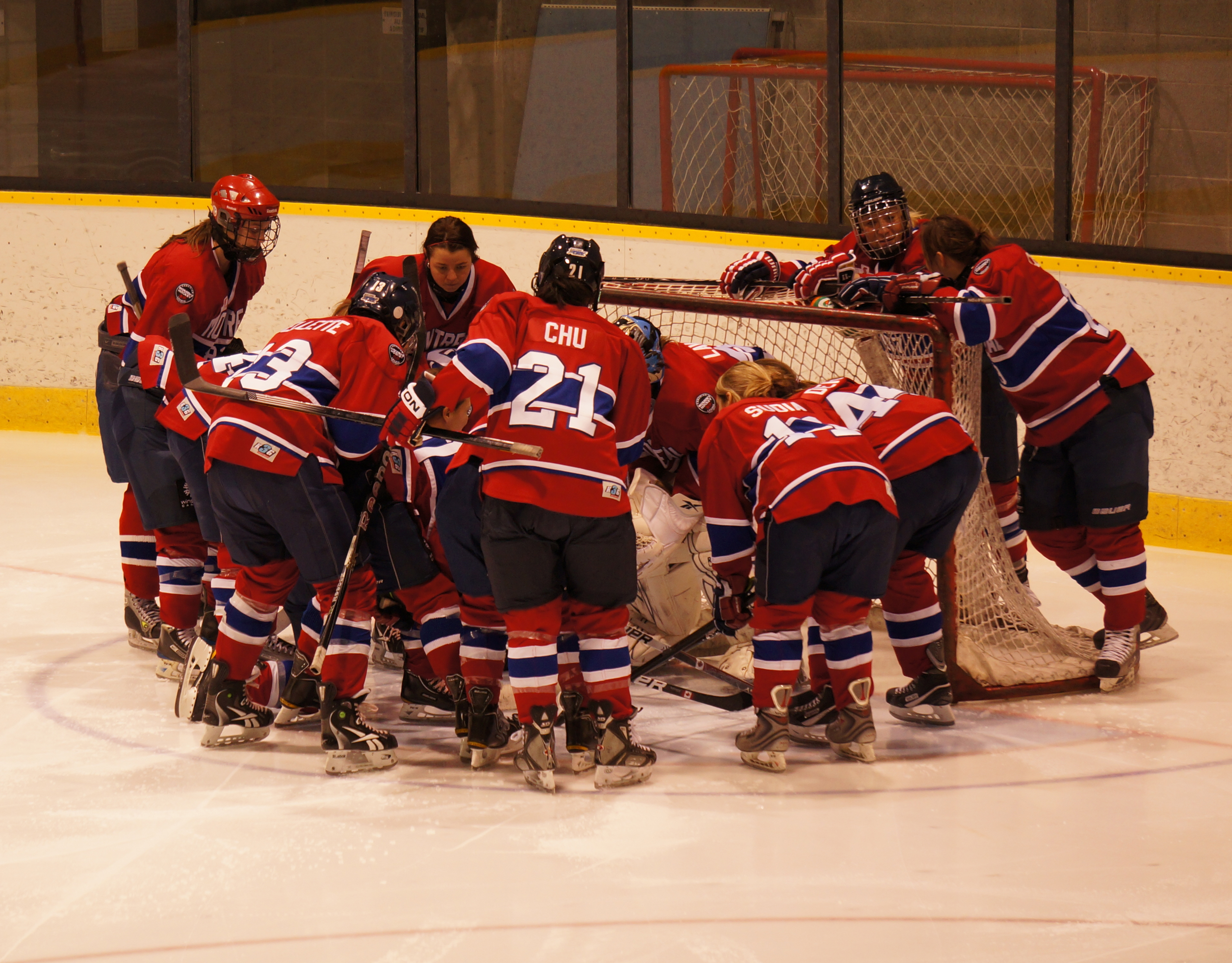 Montreal Stars